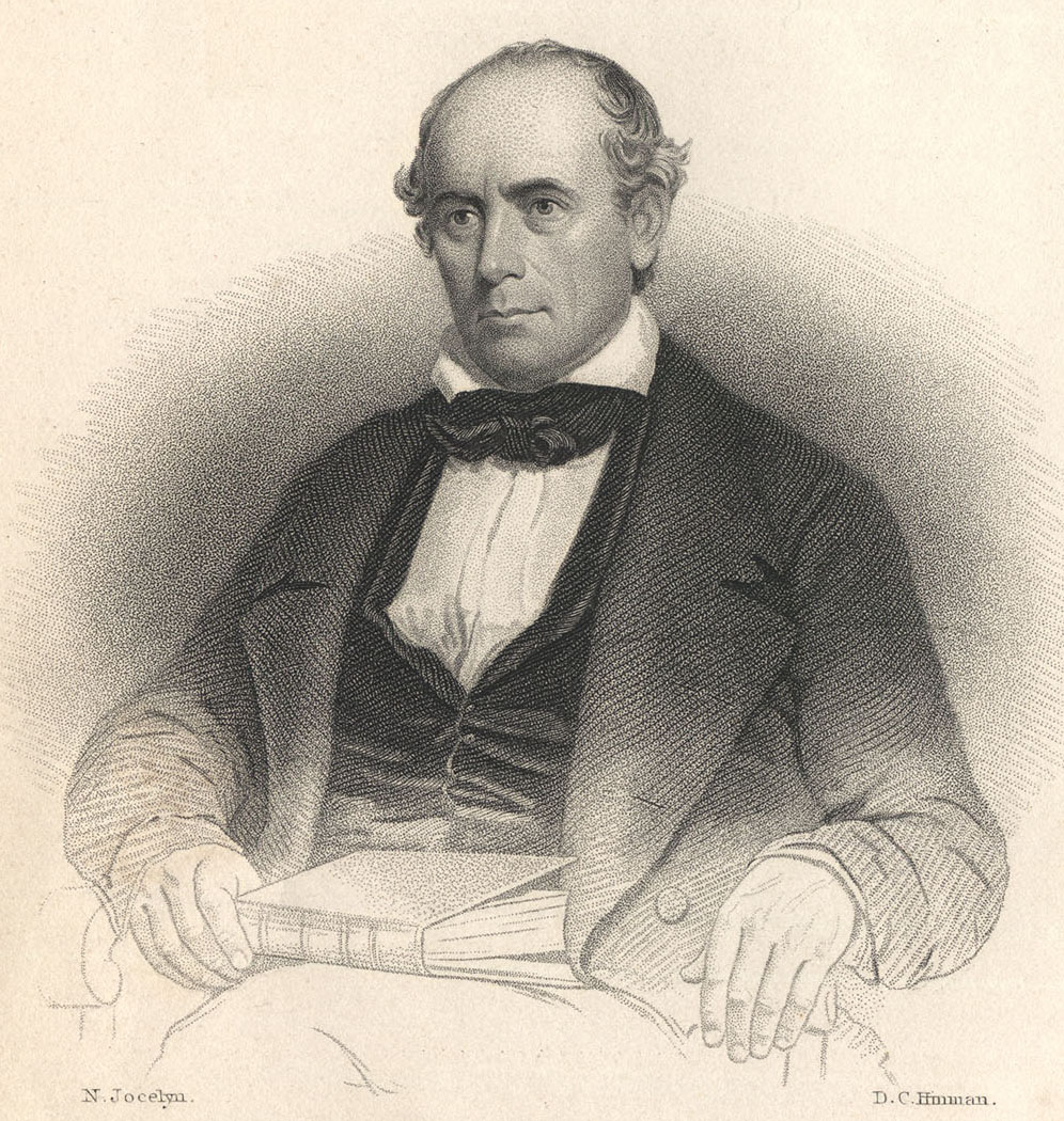 Portrait extracted from an engraving of Reverend Elisha Mitchell by Nathaniel Jocelyn (1796-1881) and D.C. Hinman (birth and death date unknown). Engraving commissioned by the Philanthropic Society of the University of North Carolina (later the University of North Carolina at Chapel Hill) in 1858 and first published in 1858 in "A Memoir of the Rev. Elisha Mitchell: Together with the Tributes of Respect to His Memory, by Various Public Meetings and Literary Associations, and the Addresses Delivered at the Re-interment of His Remains" by Rt. Rev. James H. Otey, Hon. David L. Swain, et al.; published by J.M. Henderson (Raleigh, N.C.: 1858).